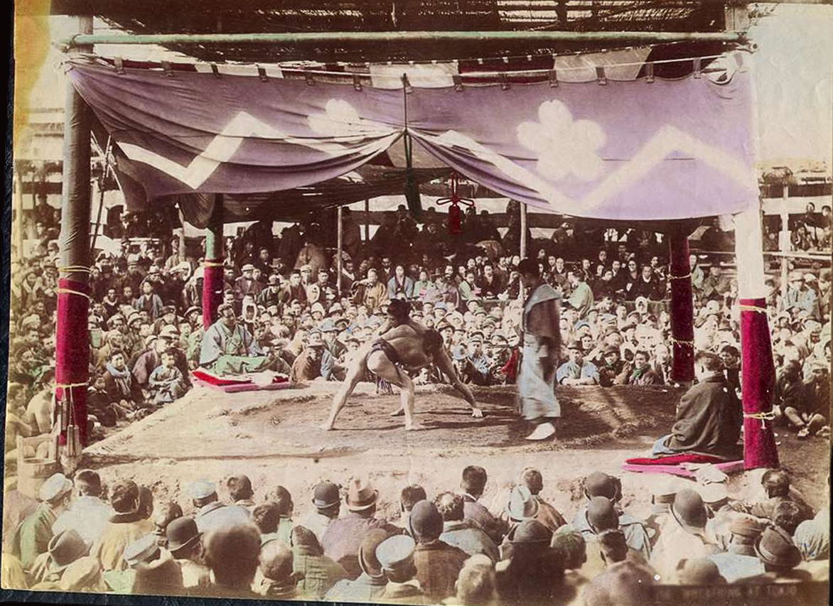 "Wrestling at Tokyo": Two wrestlers engaging in a match of sumo in a ring at Tokyo, with referees standing and sitting nearby and a large crowd of Japanese in western-style clothing watching.